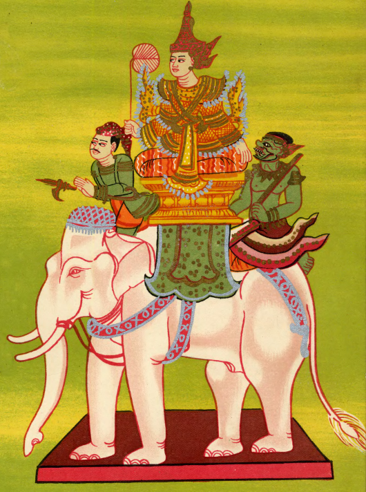 Aung Pinle Hsinbyushin nat (spirit), th in the official pantheon of Burmese nats